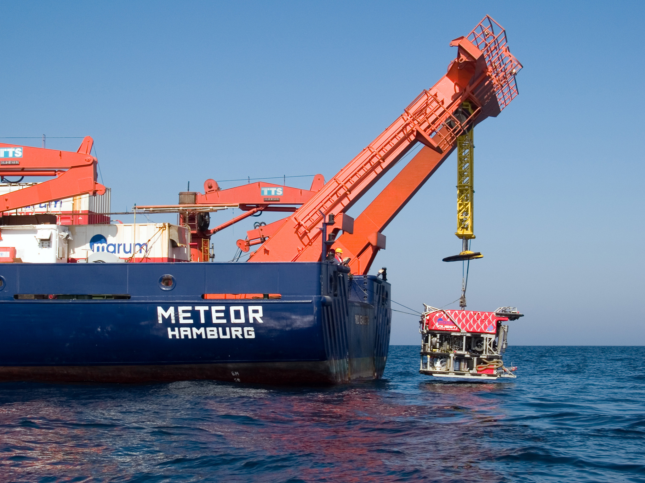 Sub­mers­ible vehicle MARUM-QUEST de­ployed from the re­search ship MET­EOR dur­ing an ex­ped­i­tion in the Ar­a­bian Sea